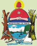 Coat of arms of the city of Paraná, in Entre Ríos Province, Argentina.